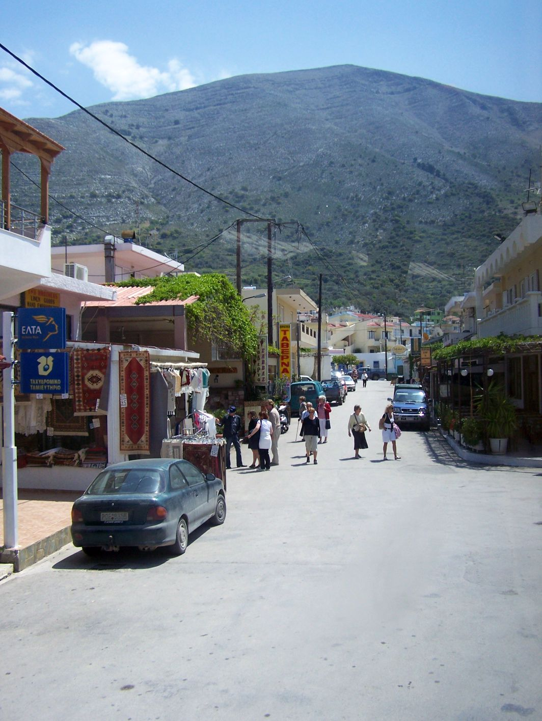 Street in Embona